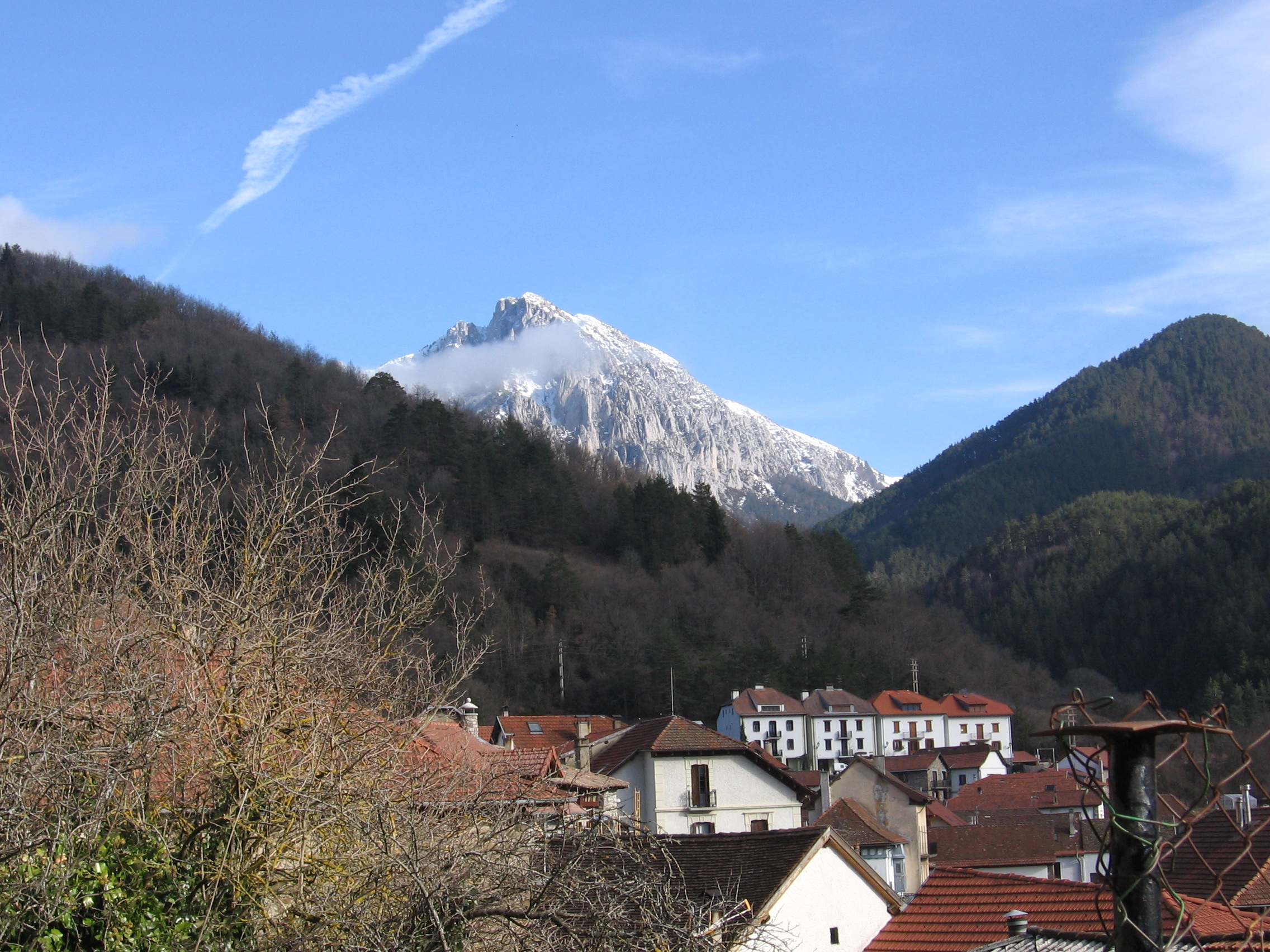 View to Isaba, Navarra, Spain